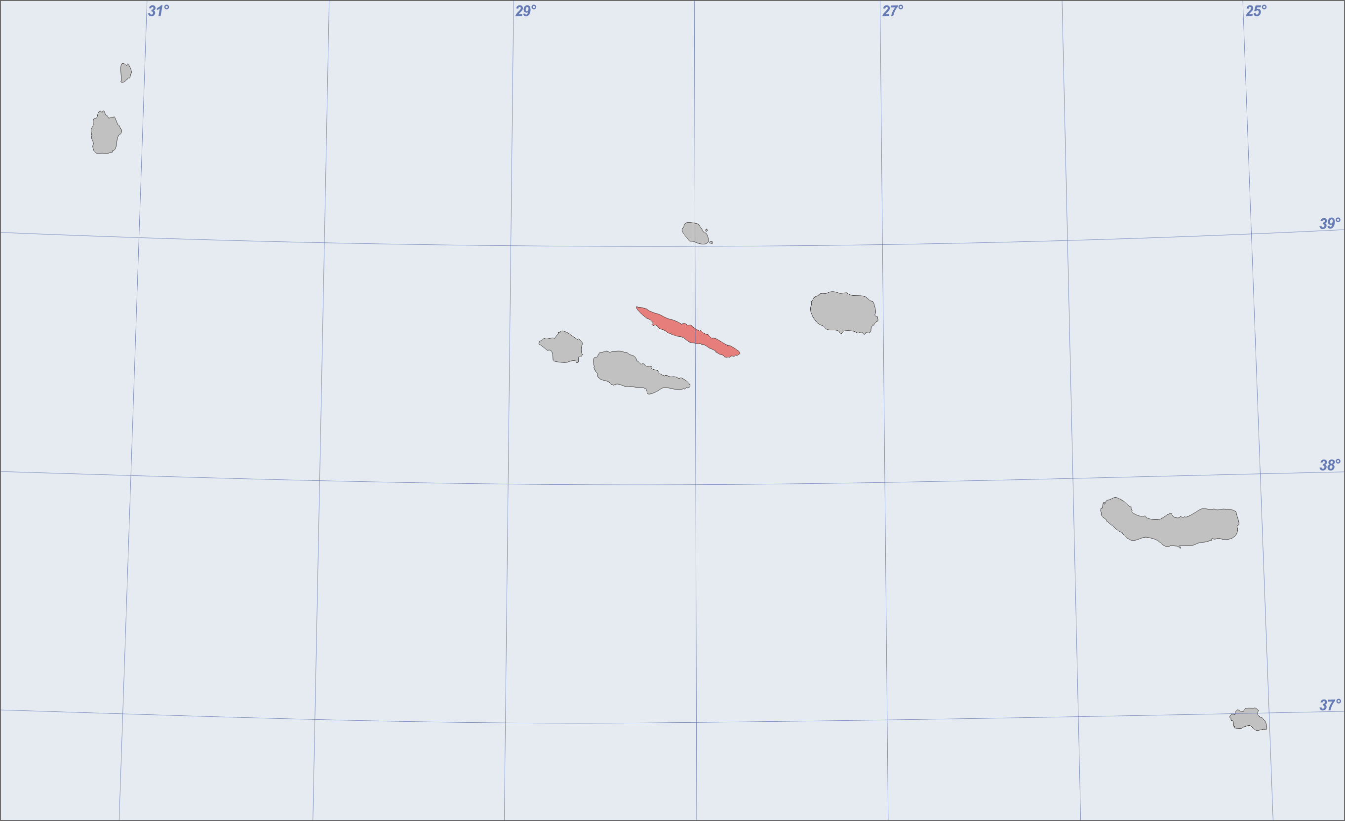 Position of Sao Jorge Island, Azores drawn by varp